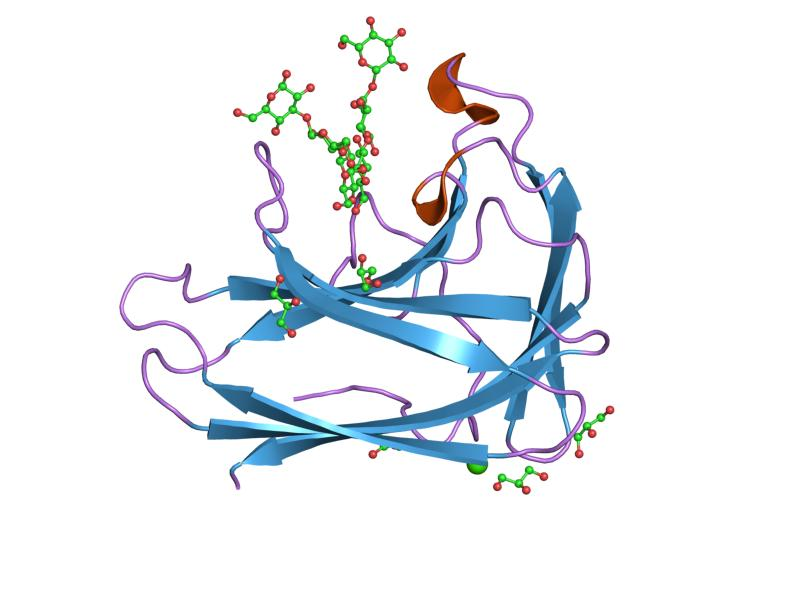 Cartoon representation of the molecular structure of protein registered with 1gui code.